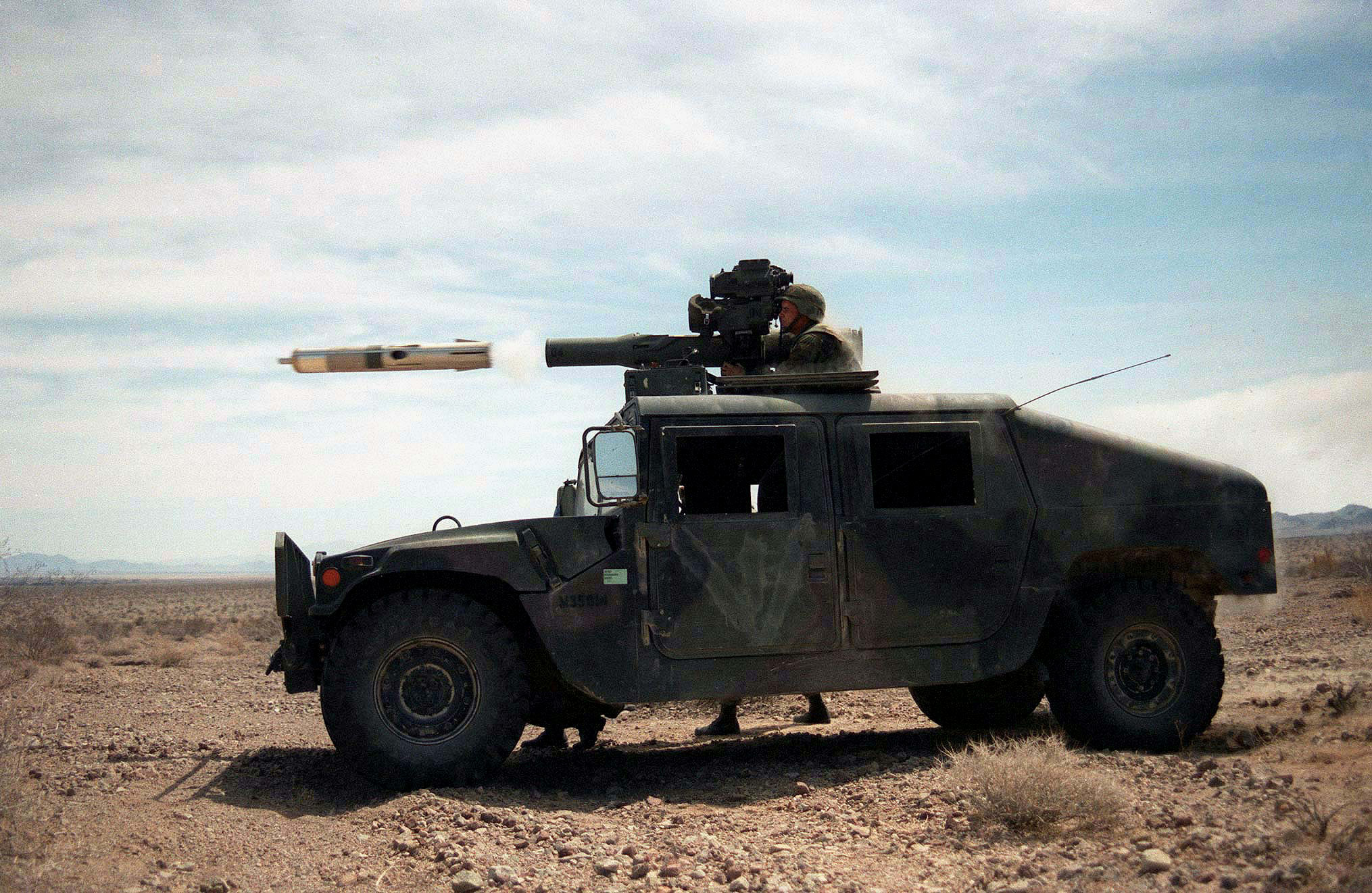 A Tube Launched, Optically Tracked, Wire-guided (TOW) missile hurtles out of its launcher mounted on a U.S. Marine Corps Humvee at the Marine Corps Air Ground Combat Center, Twentynine Palms, Calif., during Combined Arms Exercise 5-97, on April 20, 1997. The Marine Air Ground Task Force exercise is allowing these Marines of the TOW platoon, Weapons Company, 3rd Battalion, 2nd Marine Regiment, to practice their desert warfare at the Twentynine Palms Lead Mountain Range.